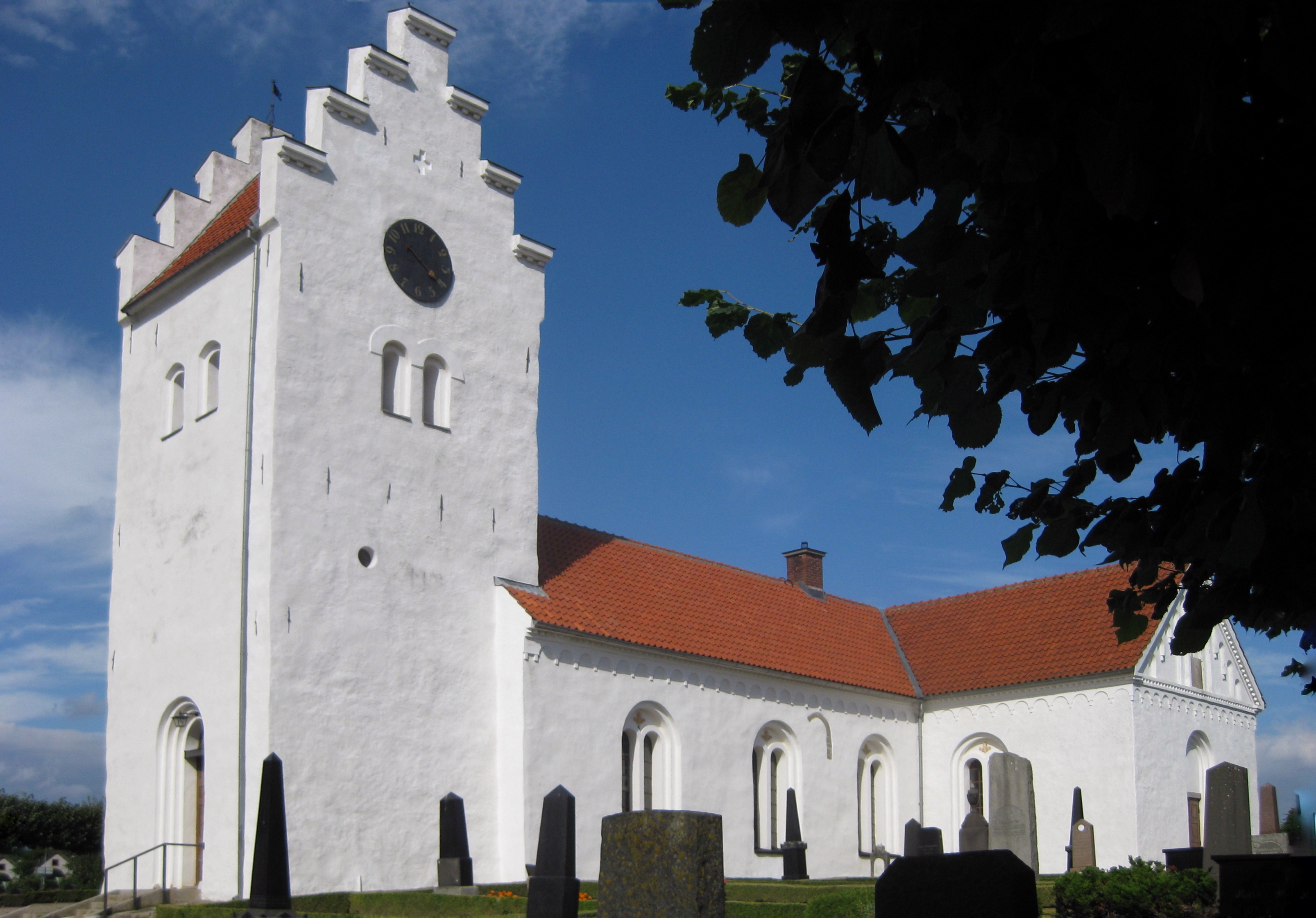 Gladsax church in Skåne, Sweden